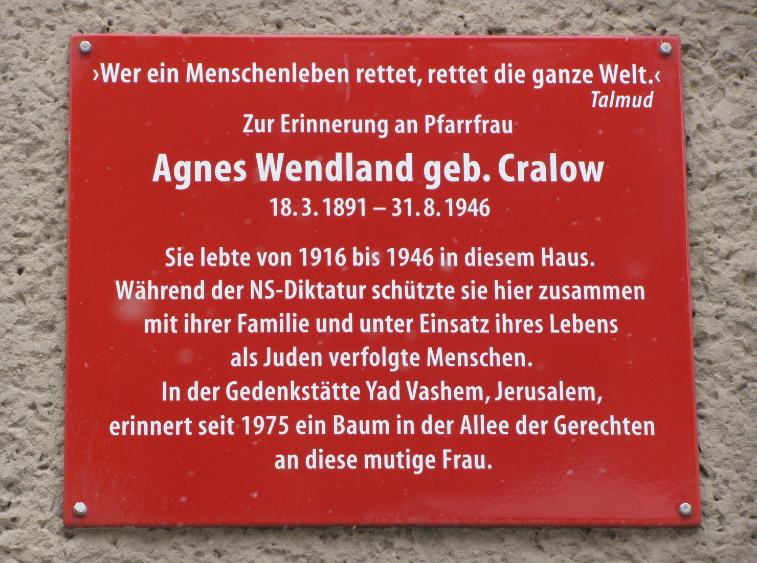 Commemorative plaque, Agnes Wendland, righteous among the Nations, Gethsemanestraße 9, Berlin, Germany.